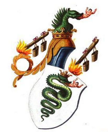 Coats of Arms of House Visconti